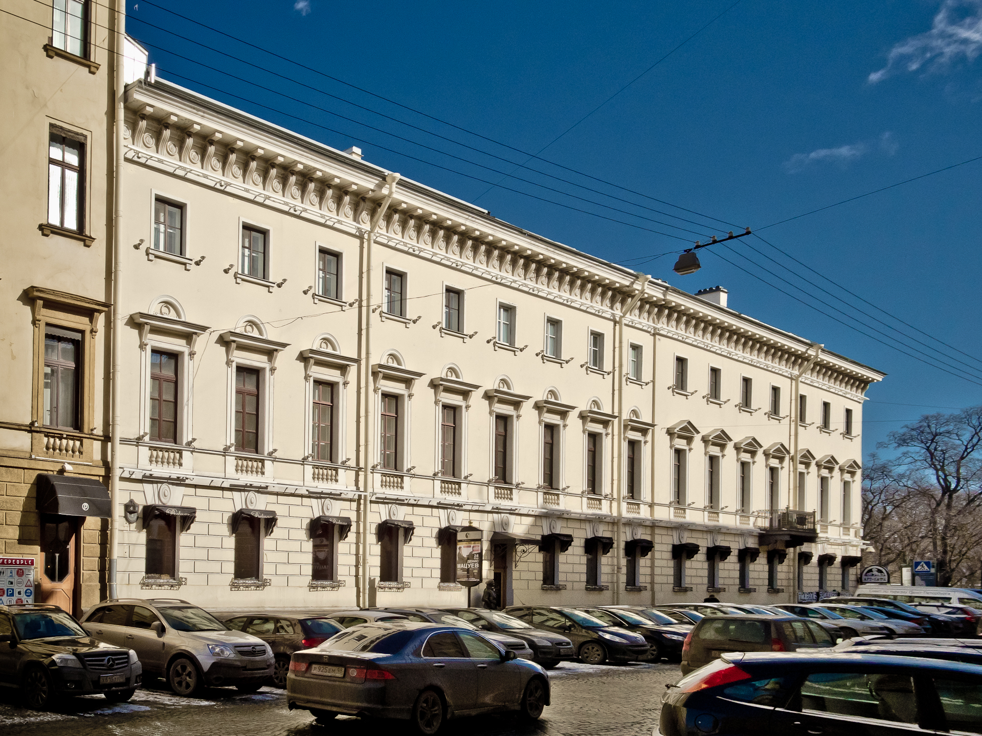 4, Italianskaya Street in Saint Petersburg.